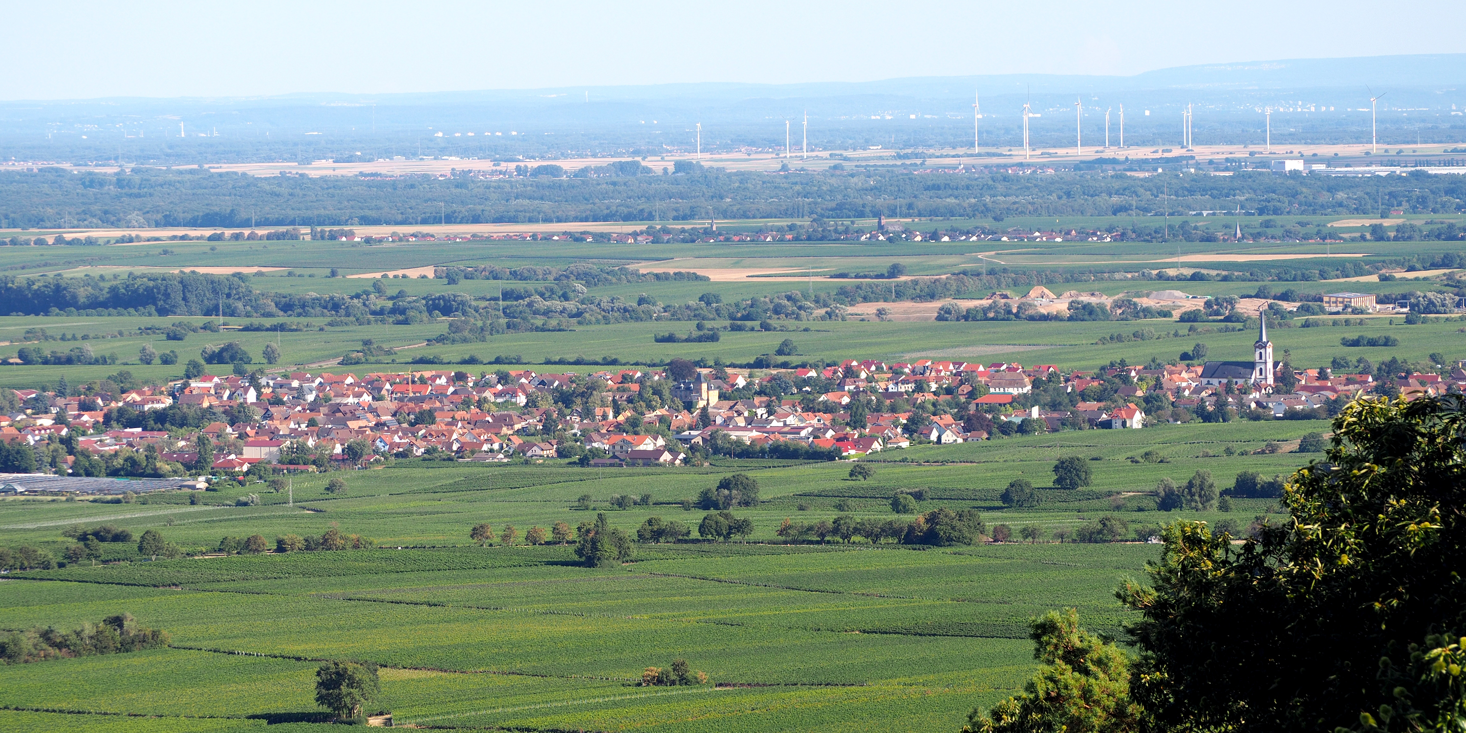 Edesheim